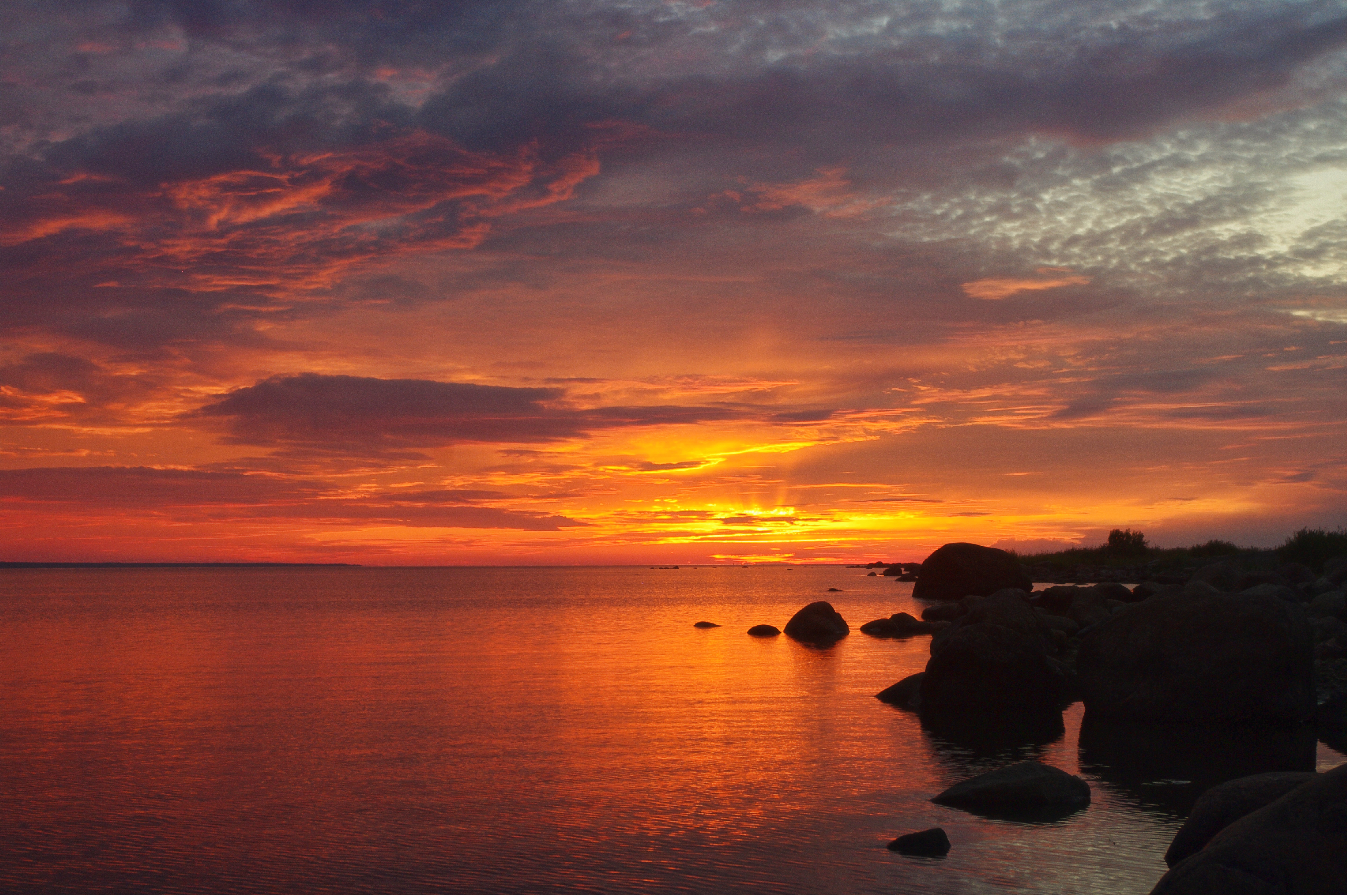 Sunset on Letipea coast